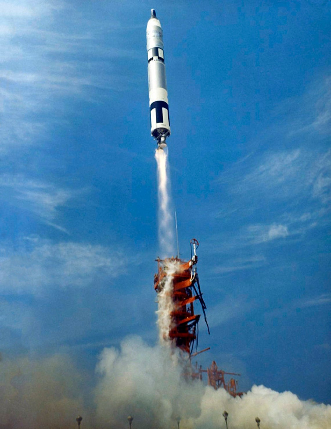 A Titan booster launched the Gemini 8 spacecraft on March 16, 1966 from launch complex 19 Cape Kennedy, Florida. The flight crew for the 3 day mission, astronauts Neil A. Armstrong and David R. Scott, achieved the first rendezvous and docking to Atlas/Agena in Earth orbit.